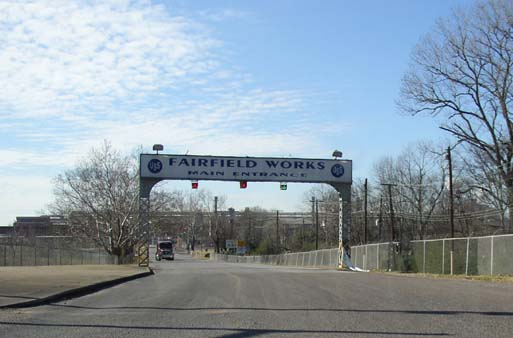 U. S. Steel Fairfield Works in Fairfield, Alabama, USA.